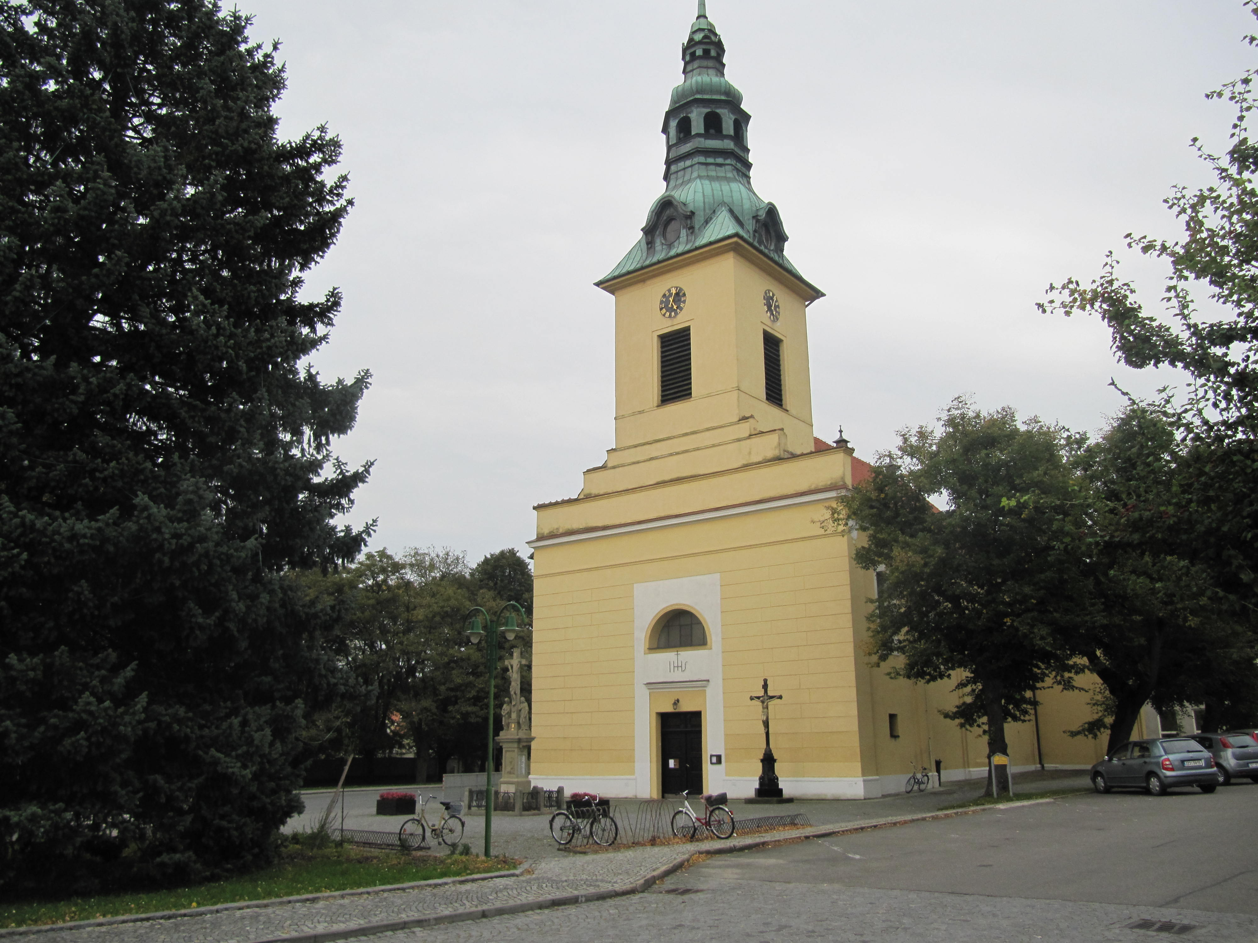 Nivnice in Uherské Hradiště District, Czech Republic. Square with church. This photograph was taken within the scope of the third year of the 'Czech Municipalities Photographs' grant.